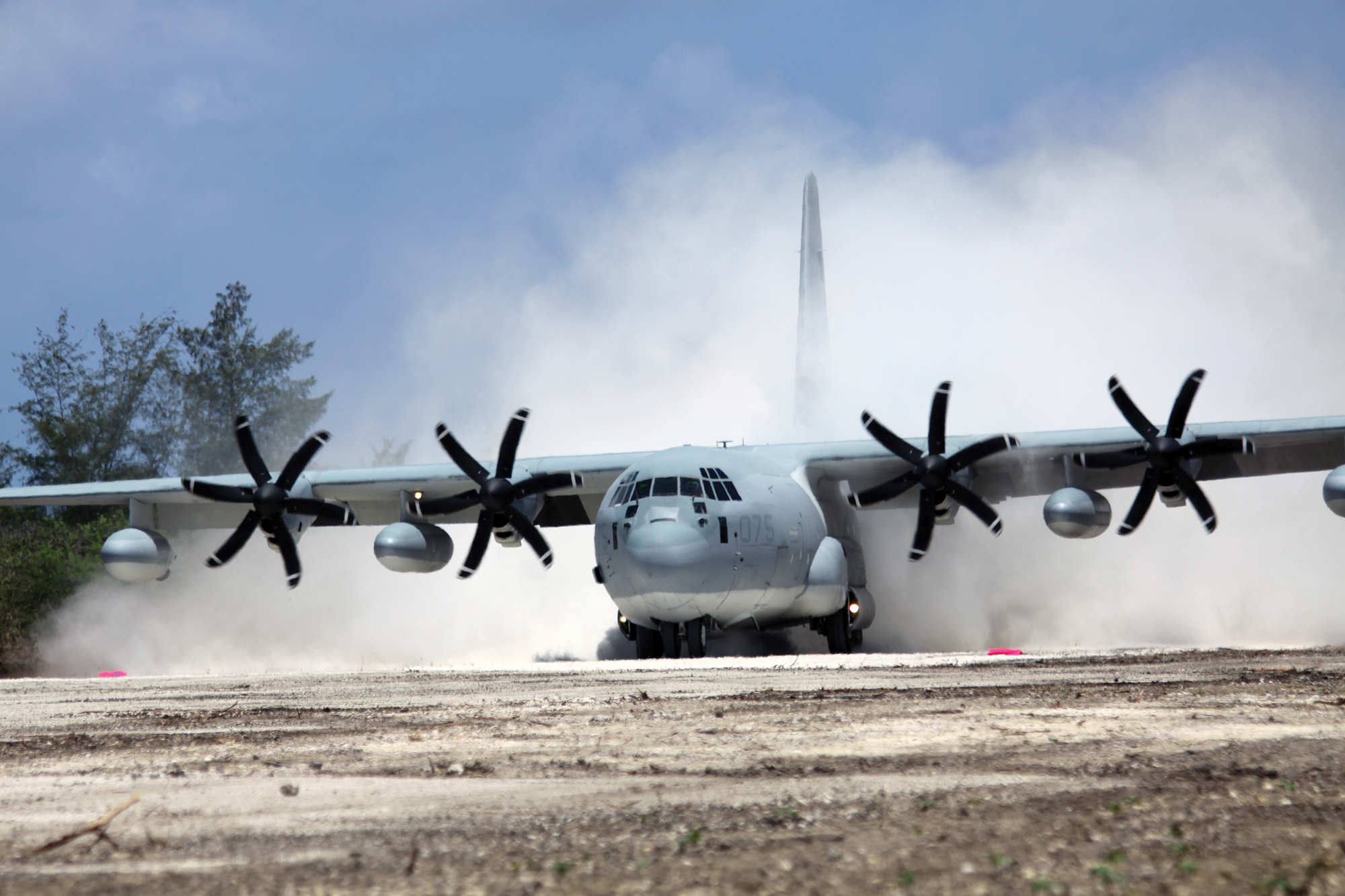 A KC-130J Hercules aircraft lands on North Field’s Baker runway on Tinian Island May 30 during Exercise Geiger Fury 2012. The aircraft was the first to land on the runway since 1947. All 8,500 feet of the runway, previously covered with natural obstructions, were cleared and repaired by personnel with Marine Wing Support Squadron 171 over the course of 14 days. The purpose of Geiger Fury 2012 is to increase aviation readiness and exercise the establishment of an expeditionary airfield in an austere environment. The aircraft is from Marine Aerial Refueler Transport Squadron 152, Marine Aircraft Group 36, 1st Marine Aircraft Wing, III Marine Expeditionary Force. MWSS-171 is part of MAG-12, 1st MAW, III MEF.